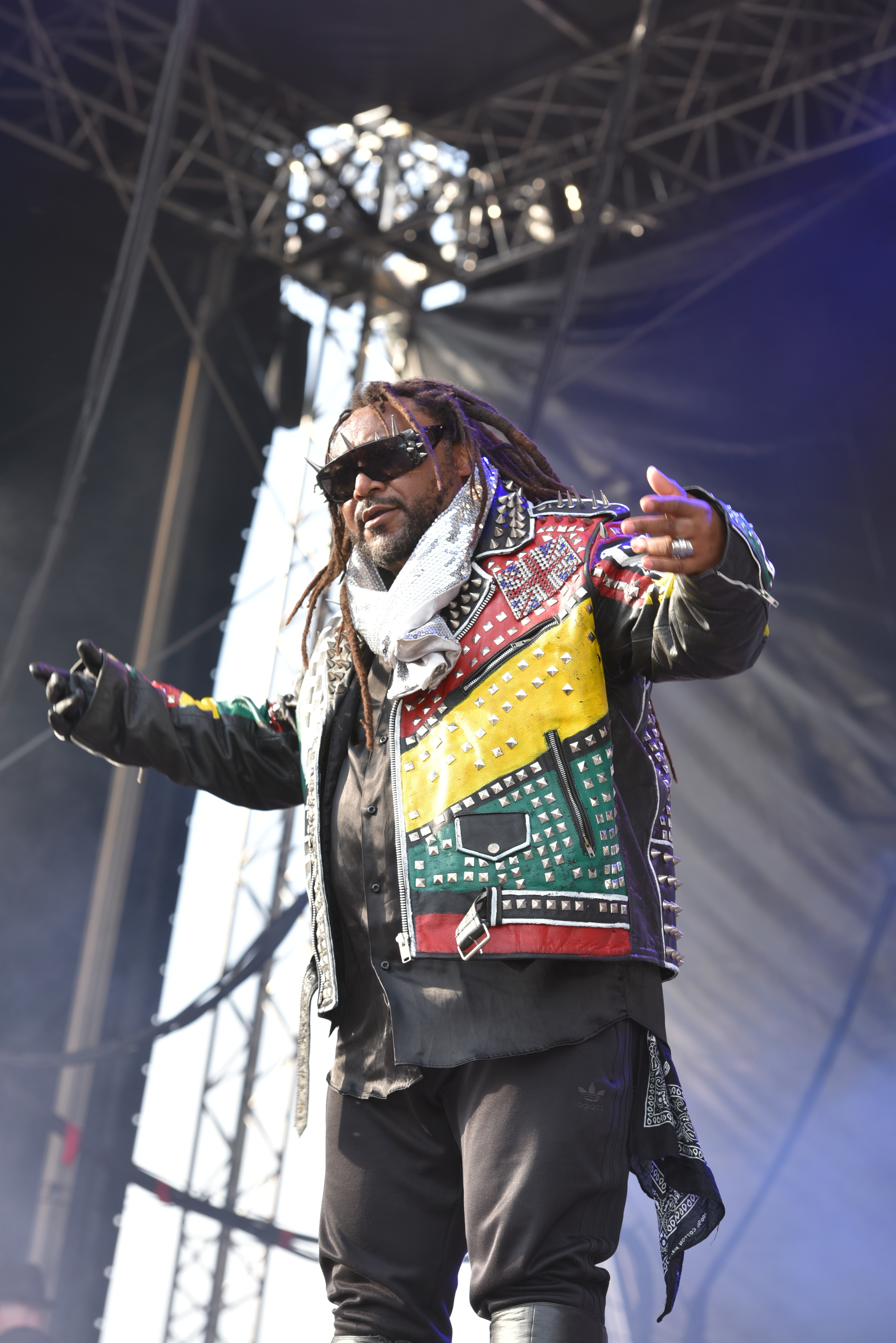 Benji Webbe from Skindred at Elbriot 2018